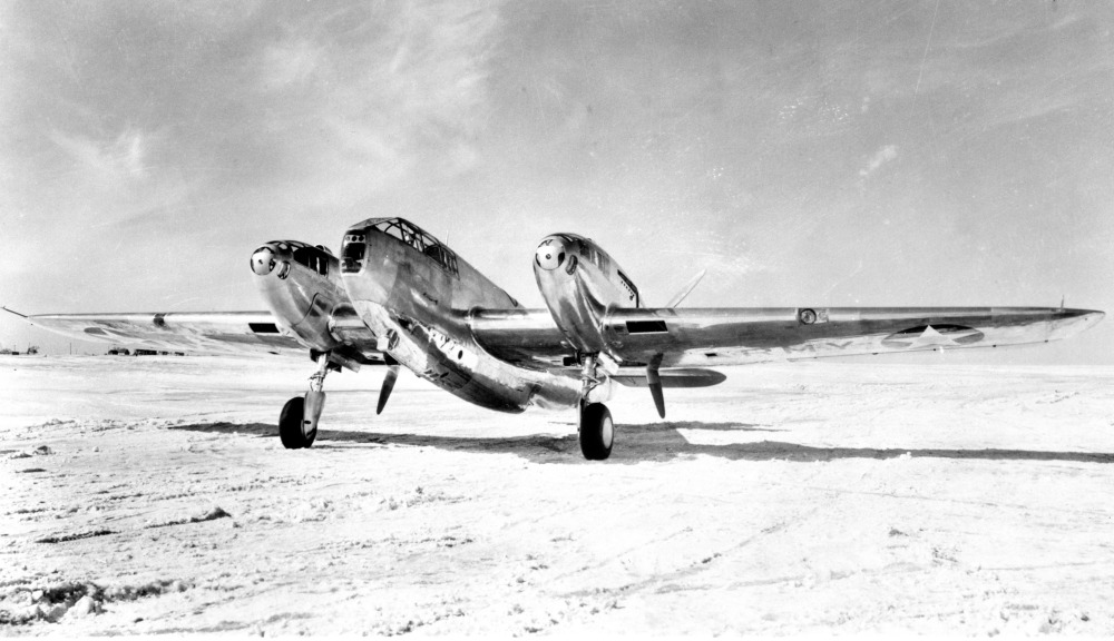 PictionID:40971875 - Title:Airacuda Bell YFM-1B - Catalog:15_002696 - Filename:15_002696.tif - Image from the Charles Daniels Photo Collection album "US Army Aircraft."----PLEASE TAG this image with any information you know about it, so that we can permanently store this data with the original image file in our Digital Asset Management System.----SOURCE INSTITUTION: San Diego Air and Space Museum Archive